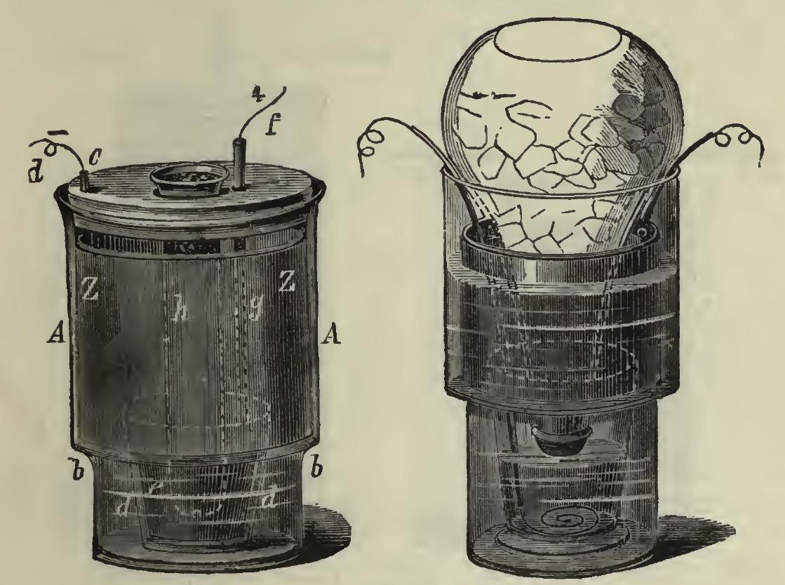 This figure shows two forms of the Meidinger cell, in each of which the copper plate is put inside a small inner glass tumbler d d, so that the particles of zinc sulphate, which may become detached from the zinc plate, may fall clear of the copper plate, and be prevented from coming into contact with it. In the type of Meidinger shown on the left, the crystals of copper sulphate are in a glass tube h, with only a small hole at the bottom, while in the type to the right the crystals are contained in an inverted flask open at the neck. In both, the zinc plate z z, which is in the form of a cylinder, is supported on a shoulder h b, formed by a contraction of the lower part of the outer glass vessel.